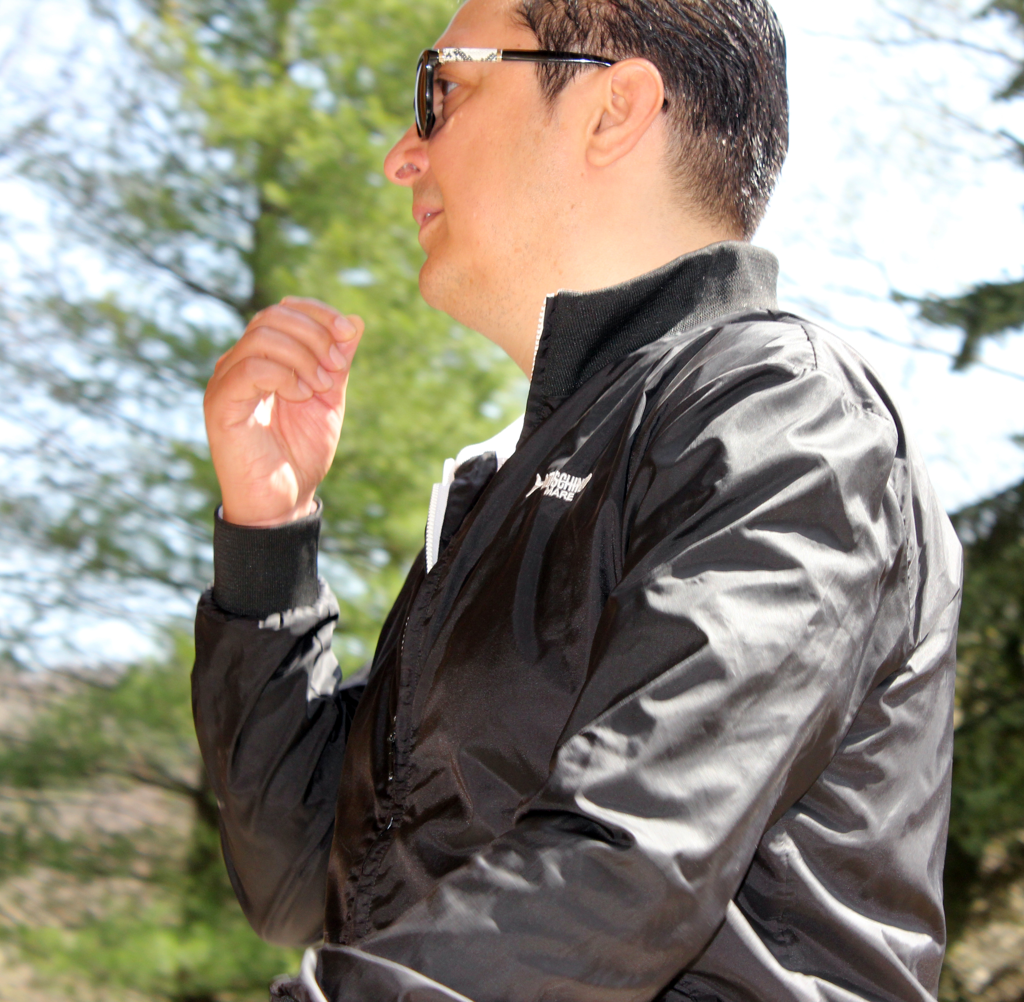 Bulgarian singer Vasil Petrov in the Vitosha Nature Park